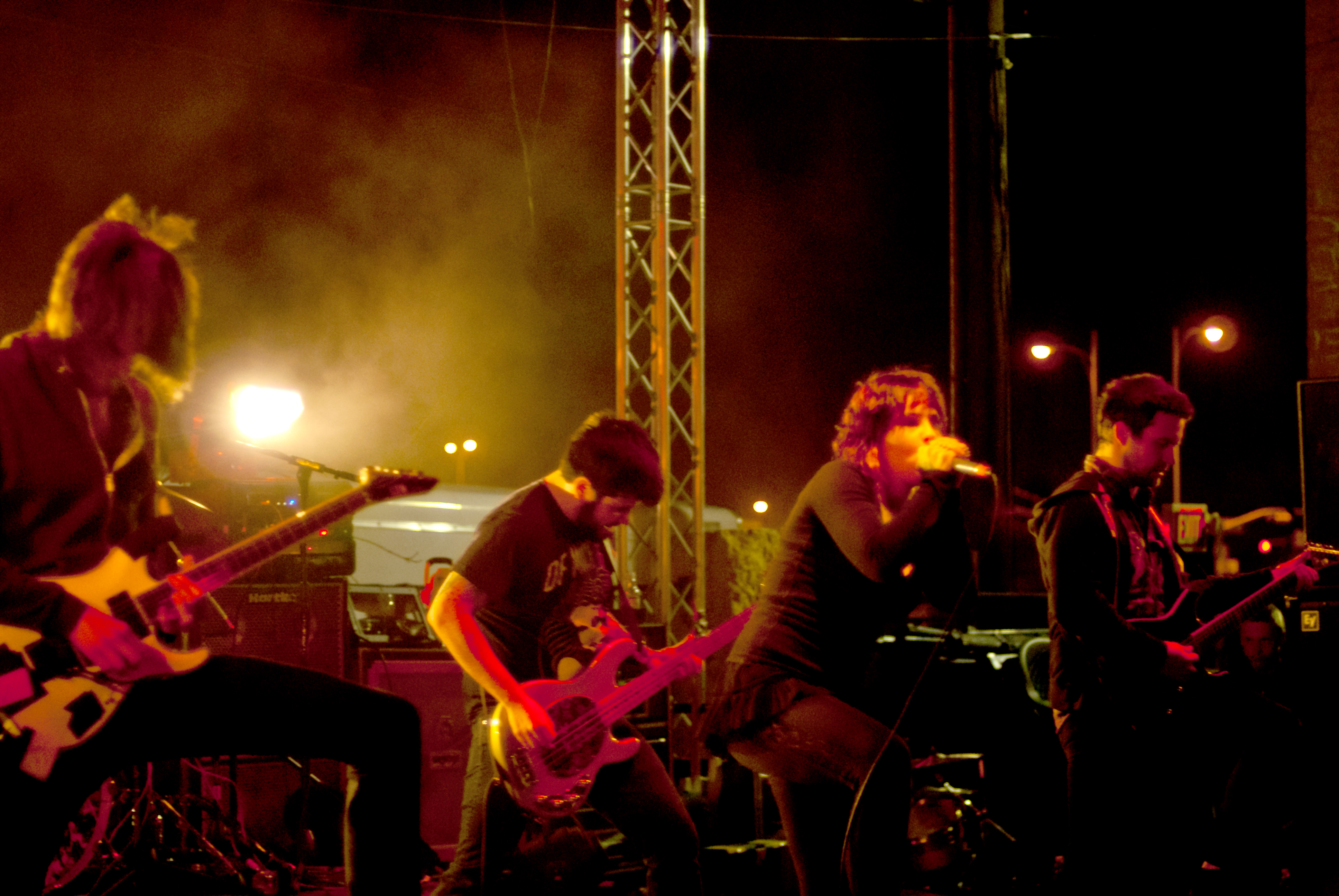 IWABO live at a concert in Lubbock, TX in 2011.